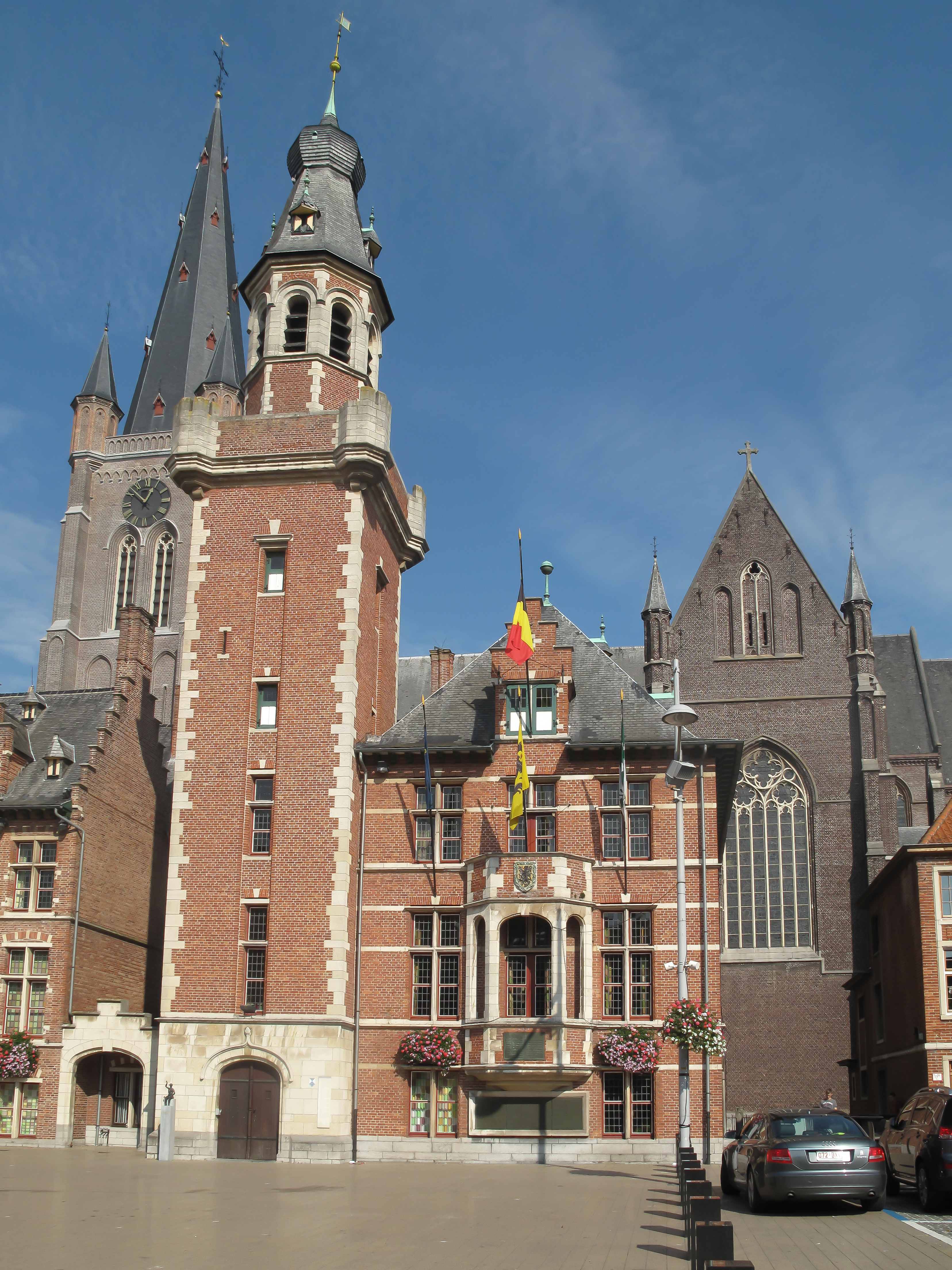 Eeklo, monumental tower close to town hall